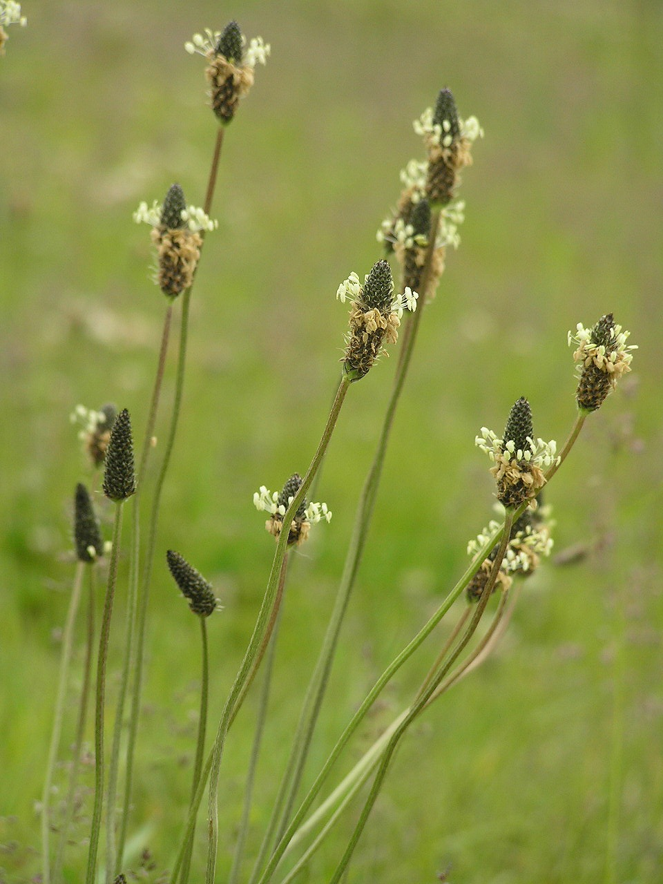 Plantago lanceolata P6200323 箆大葉子、ヘラオオバコ